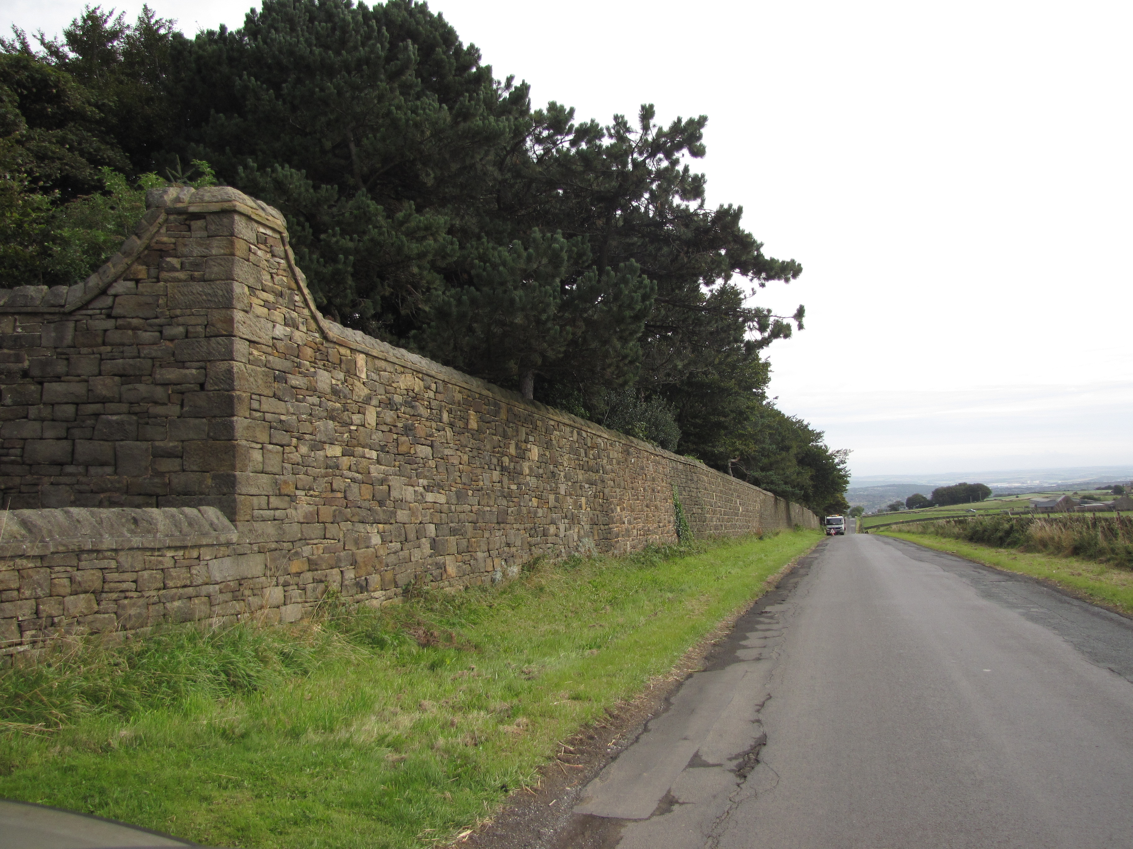 Part of the 12-foot high boundary wall of the Carmel of the Holy Spirit, Kirk Edge, Bradfield, Sheffield, South Yorkshire